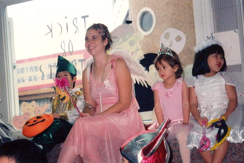 Halloween at my school in Taiwan. This picture was taken by the mother of the boy sitting next to me in the green hat.